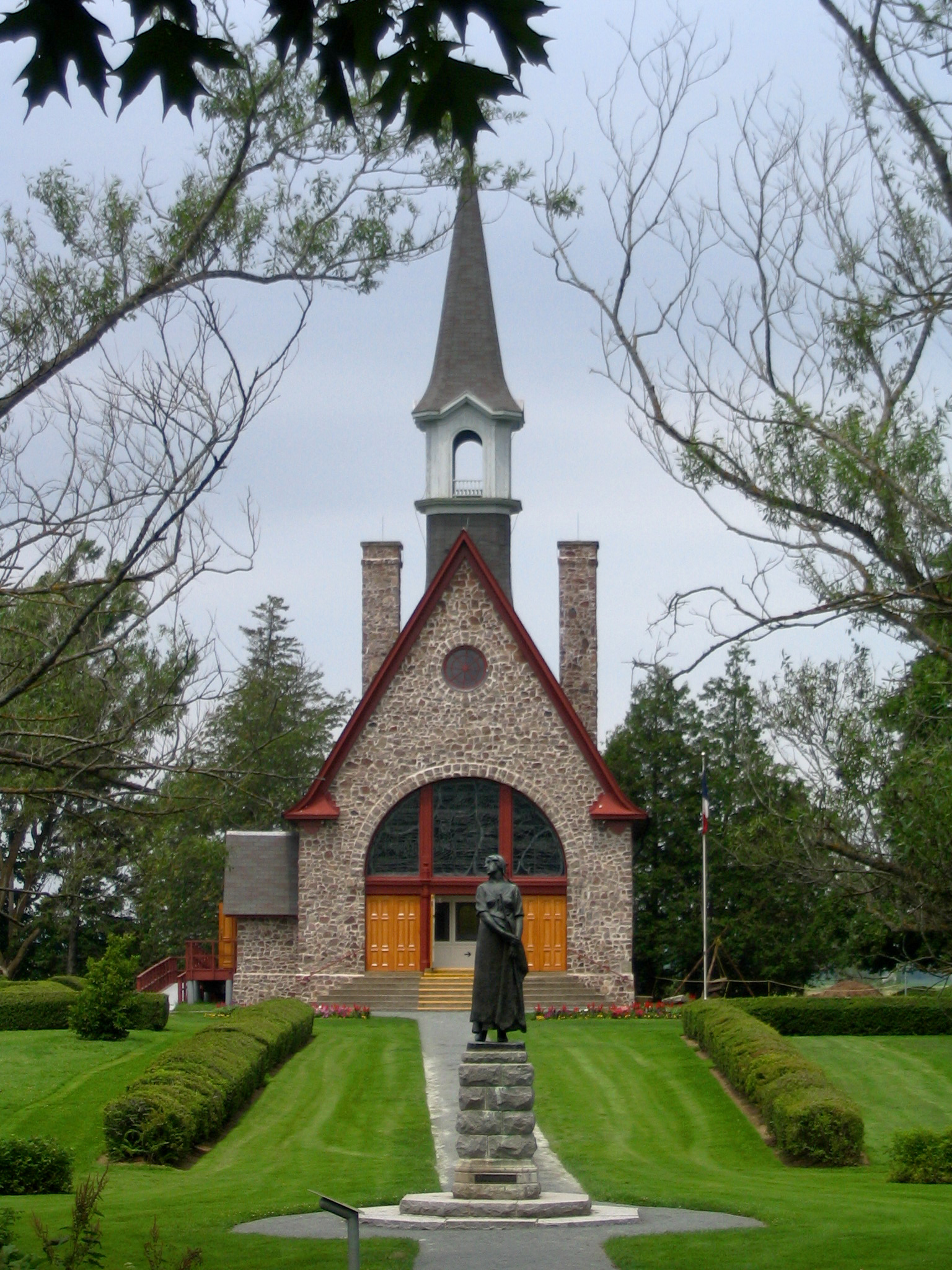 The church of Grand-Pré and the statue of Évangéline